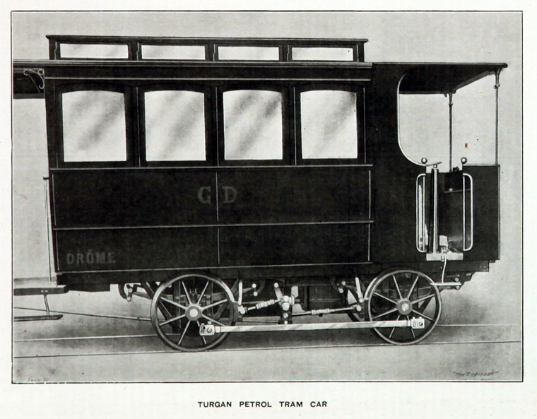 Turgan petrol tram from 1904. Turgan & Foy in Levallois-Perret mainly built automobiles, and trucks, often with steam engines.